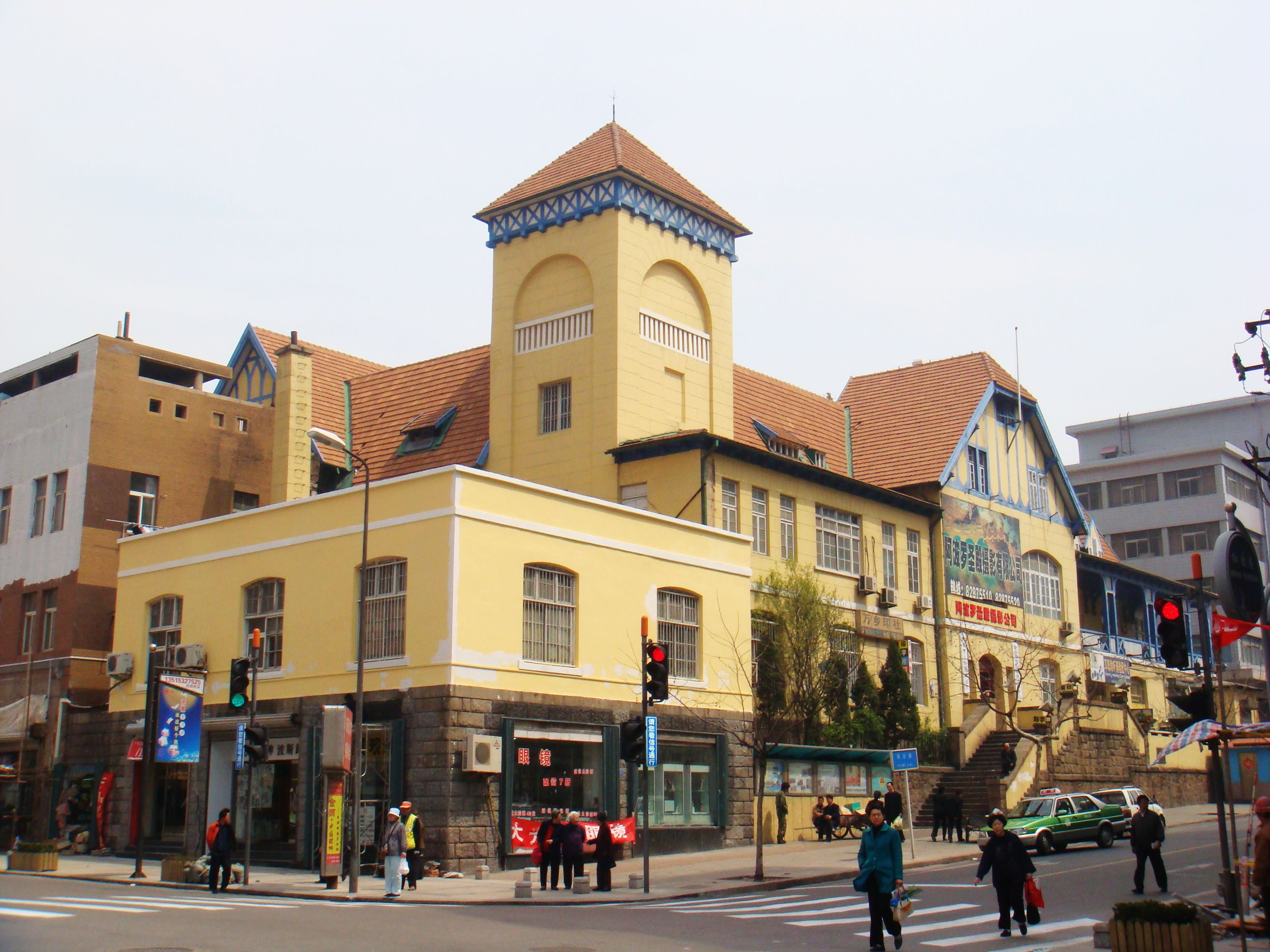 The former Navy Restaurant in Qingdao,on the Hubei road.